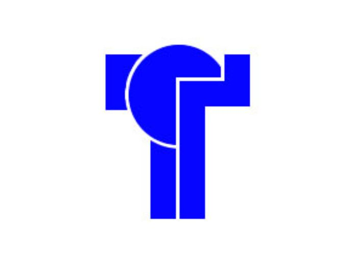 The flag of Tempe, Arizona.